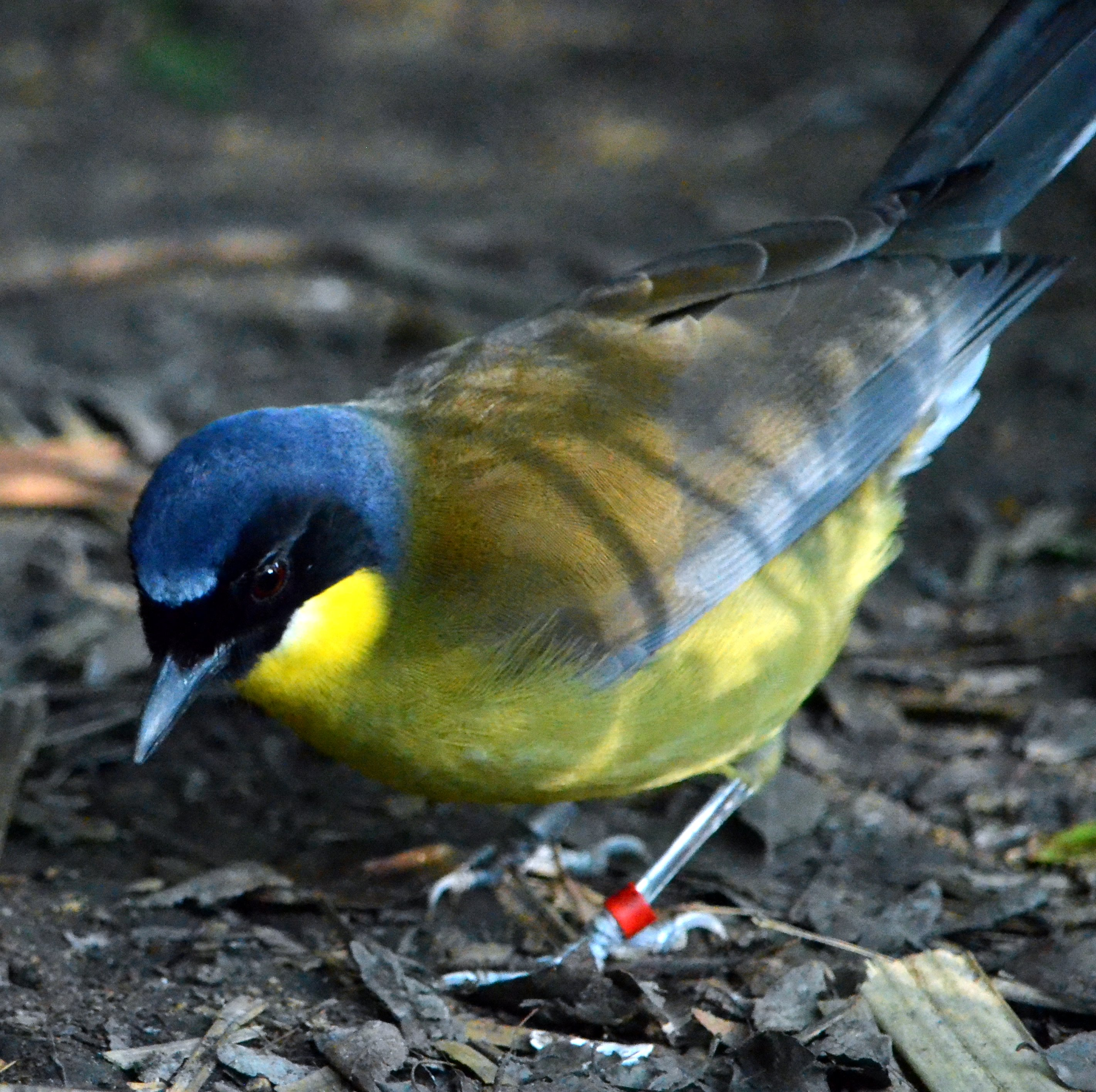 A Blue-crowned Laughingthrush at Audubon Zoo, New Orleans, Louisiana, USA.